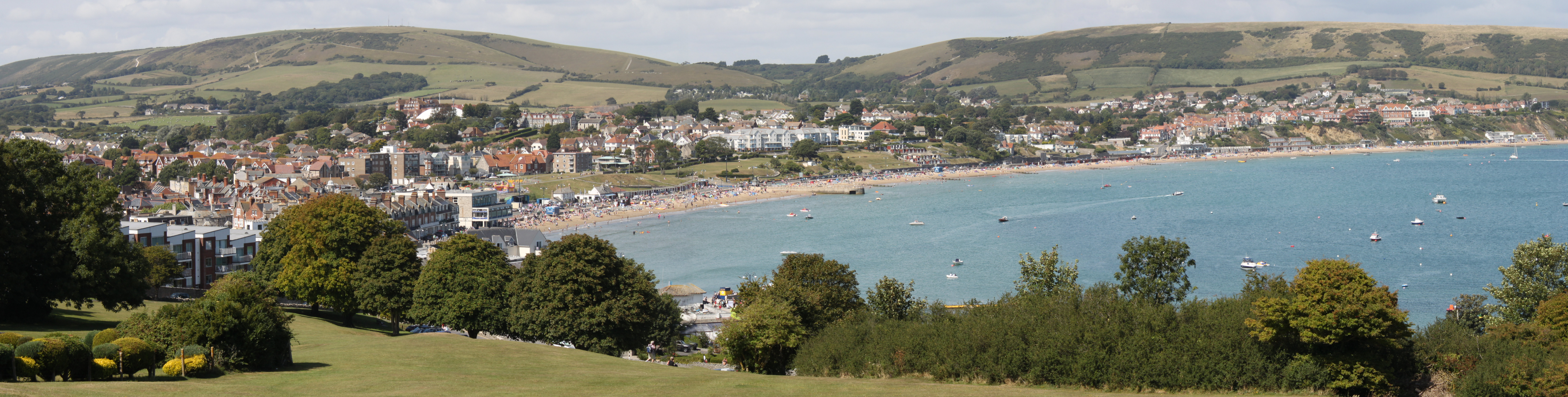 Cropped Swanage panorama